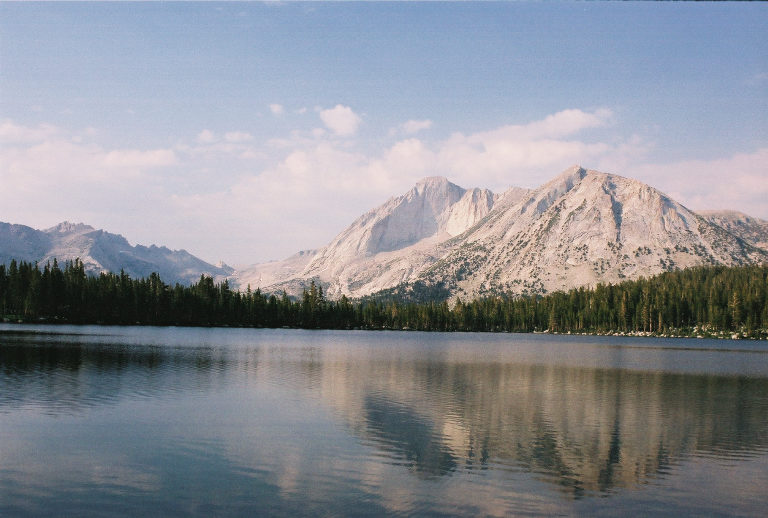 Lower Young Lake, Yosemite National Park, near Tuolumne Meadows